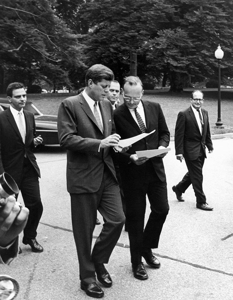 President Kennedy confers with National Security Advisor McGeorge Bundy. White House, Northwest Gate.